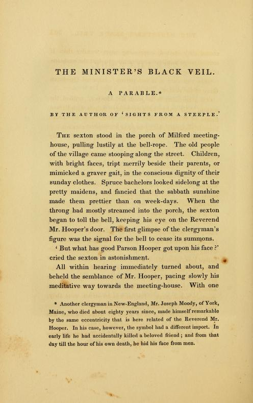 Page from The Token and Atlantic Souvenir, an annual gift-book, edited by Samuel Griswold Goodrich. Published by Charles Bowen, 1836. Features the opening page of "The Minister's Black Veil", a short story by Nathaniel Hawthorne.